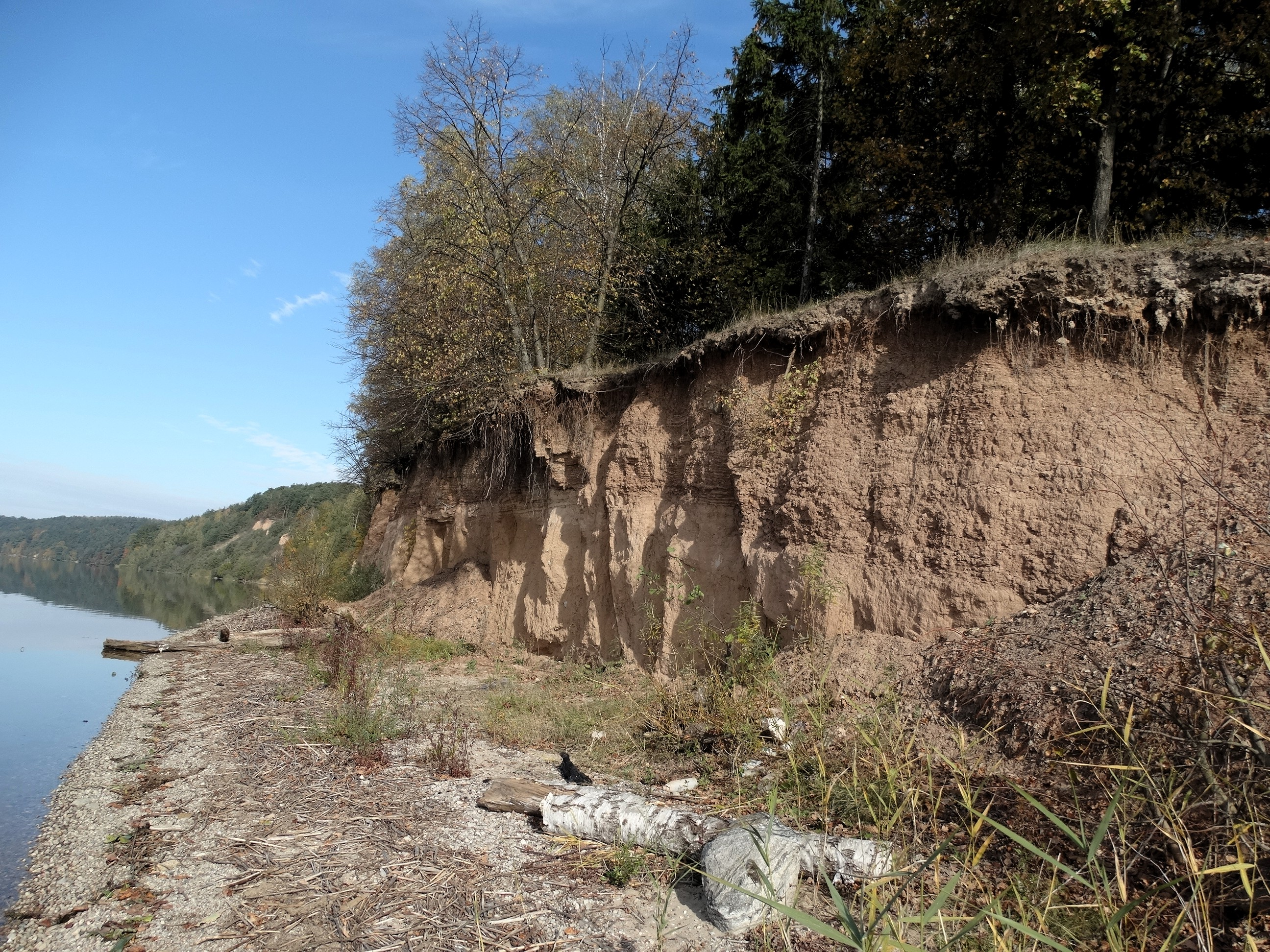 Outcrop, Dovainonys, Kaišiadorys District, Lithuania